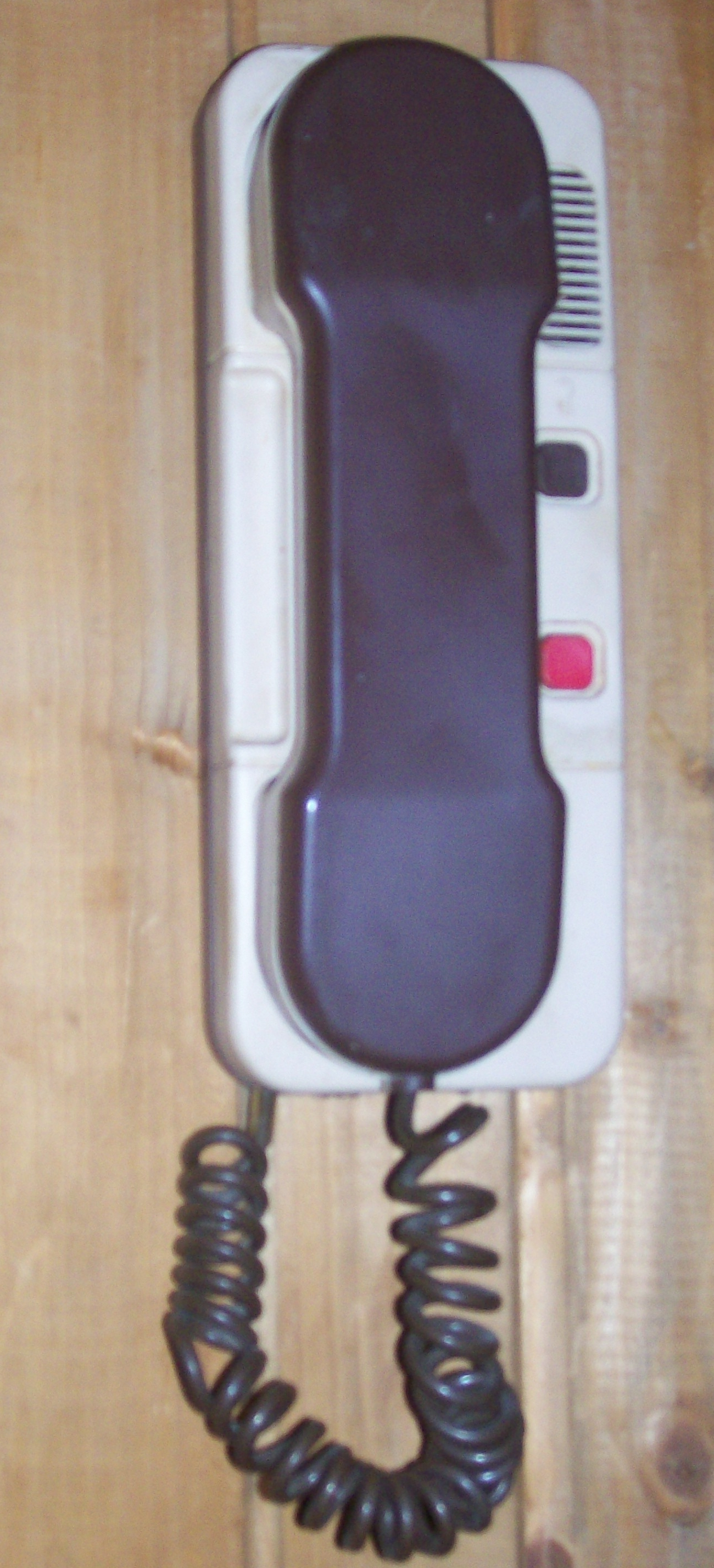 Description= Domofon Author= Ewkaa